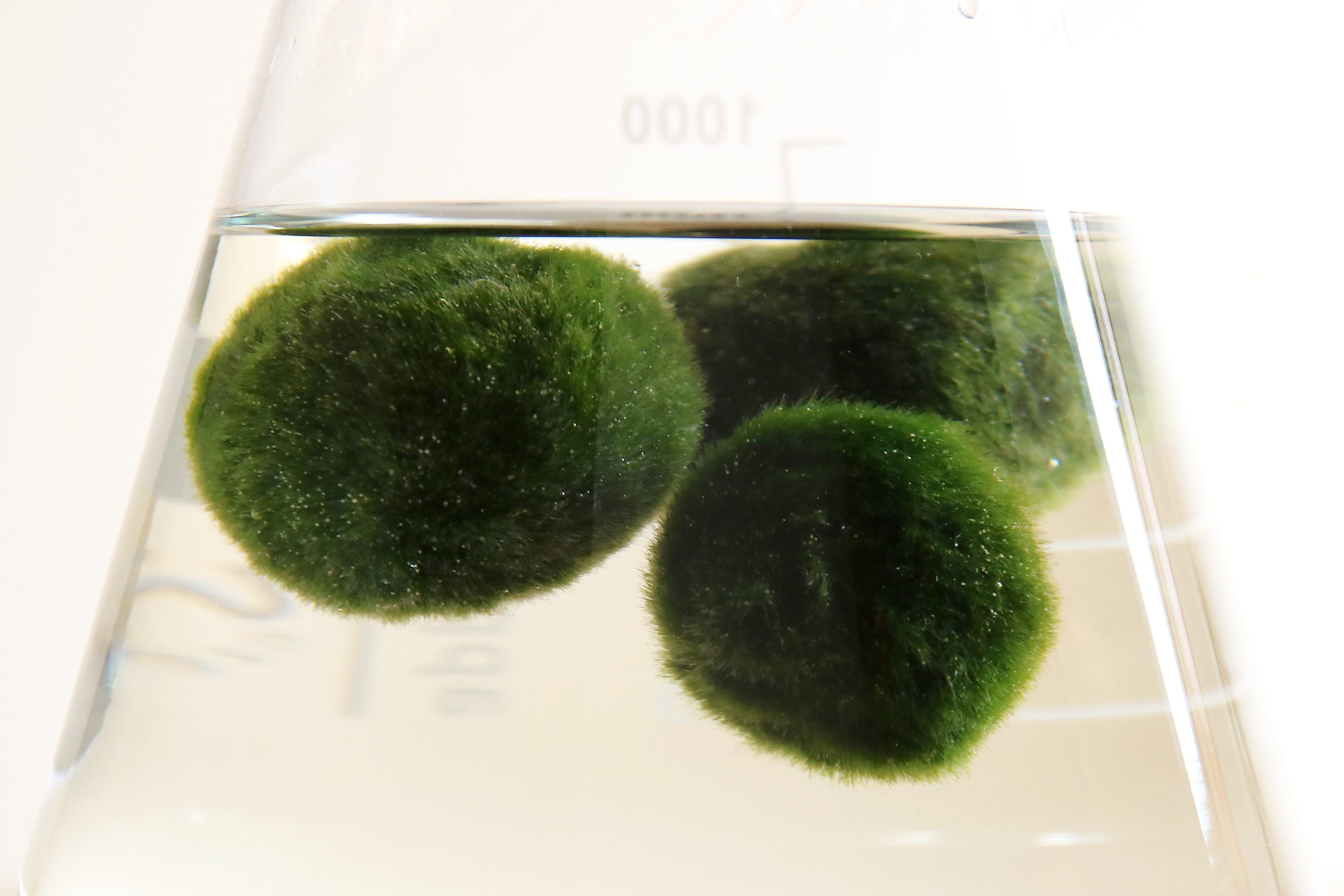 Aegagropila linnaei grown in a 1000ml Erlenmeyer flask